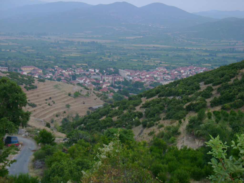 Valankovo from Mnt Plavush